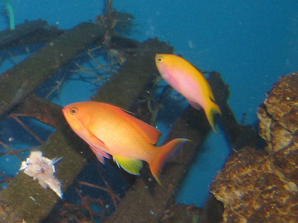 Lyretail Anthias at Newport Aquarium